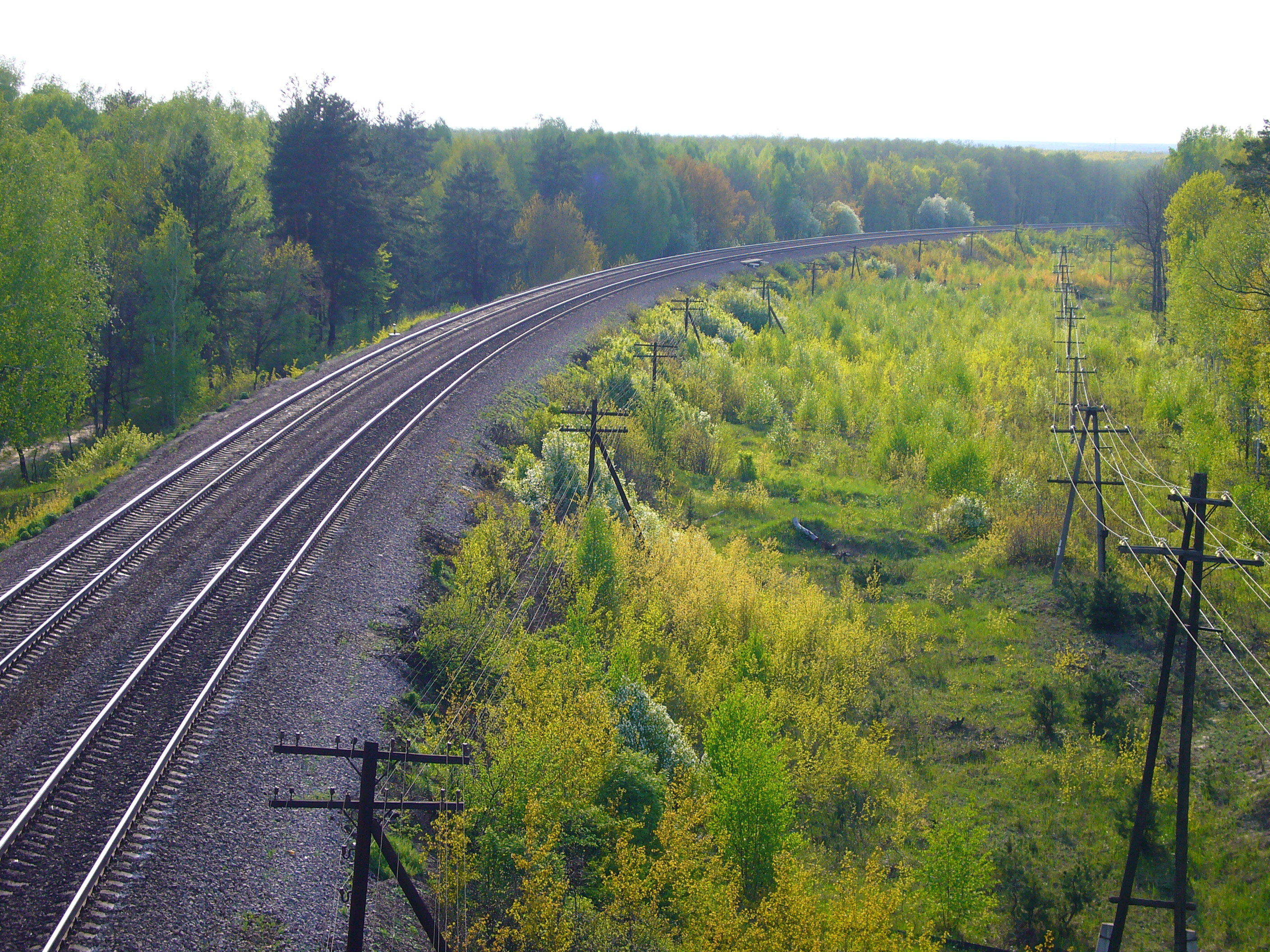 if you look to the right, there's an optical cable running along this tertiary value railroad -- village internet GET!